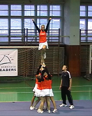 Cheerleaders soutěži, stunt liberty